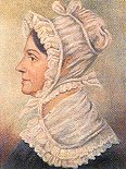 Elizabeth Collins (ca. 1768-1858), wife of Richard Bland Lee I (1761-1827)